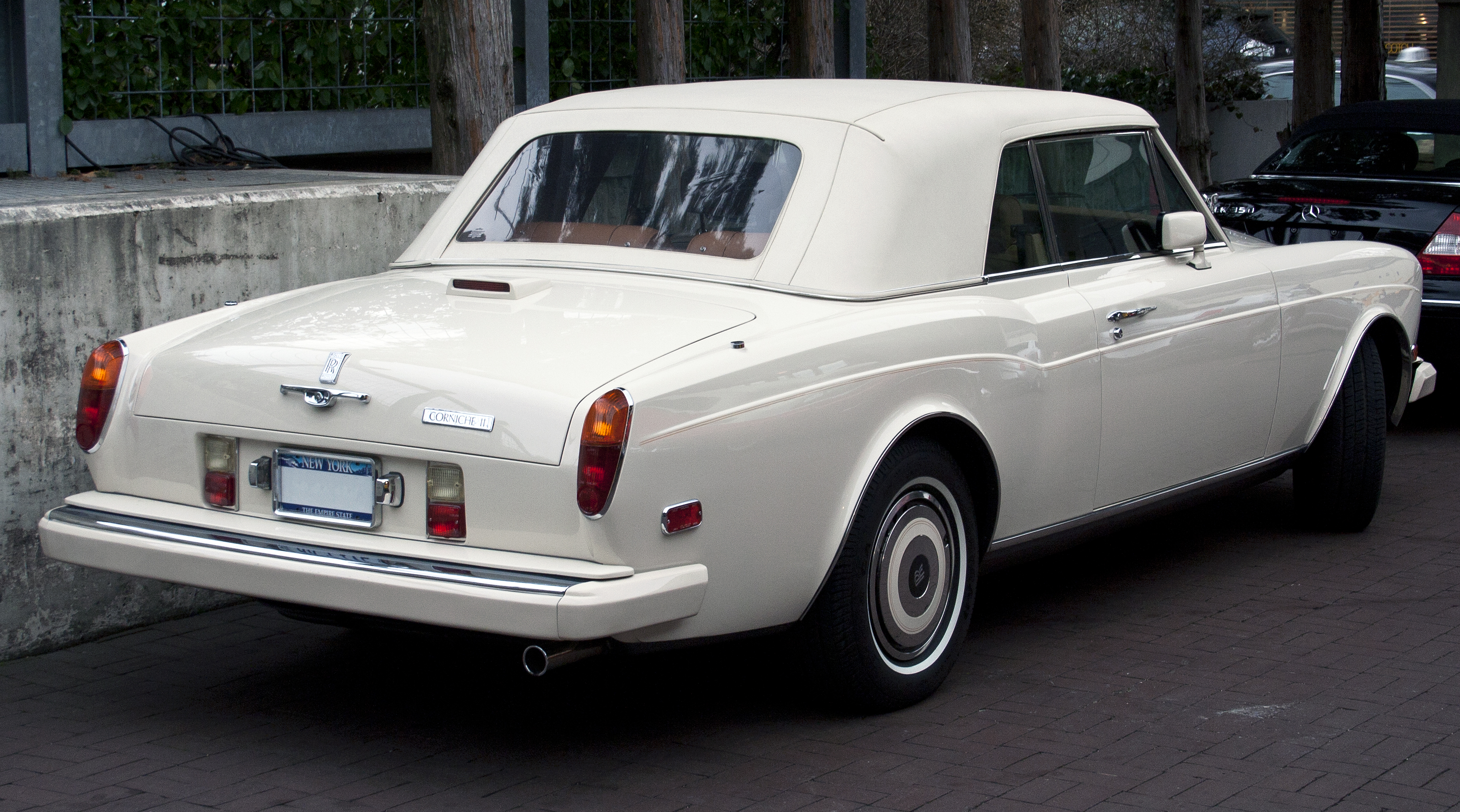 Rear view of 1989 Rolls-Royce Corniche II